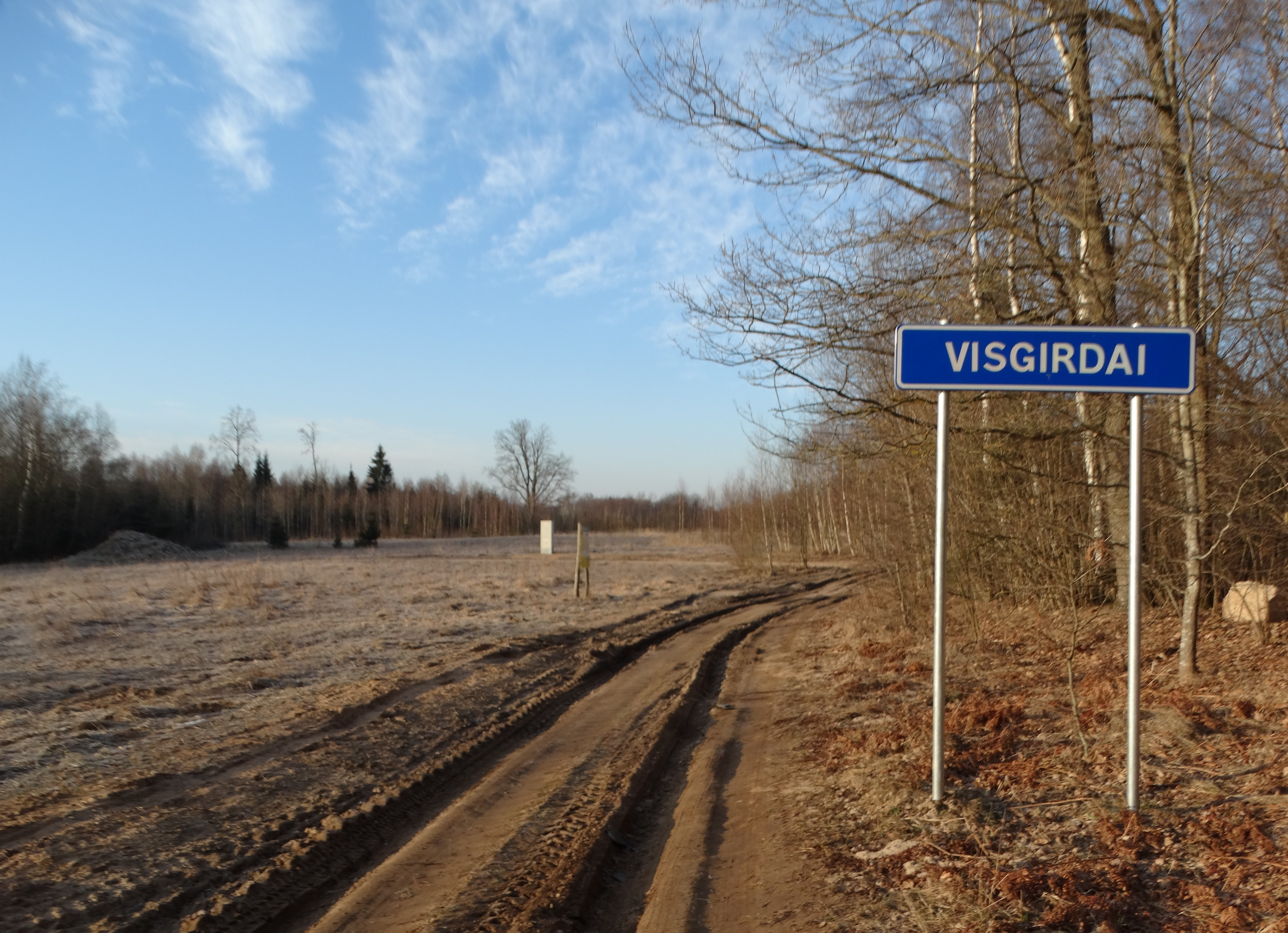 Visgirdai, Šiauliai district, Lithuania